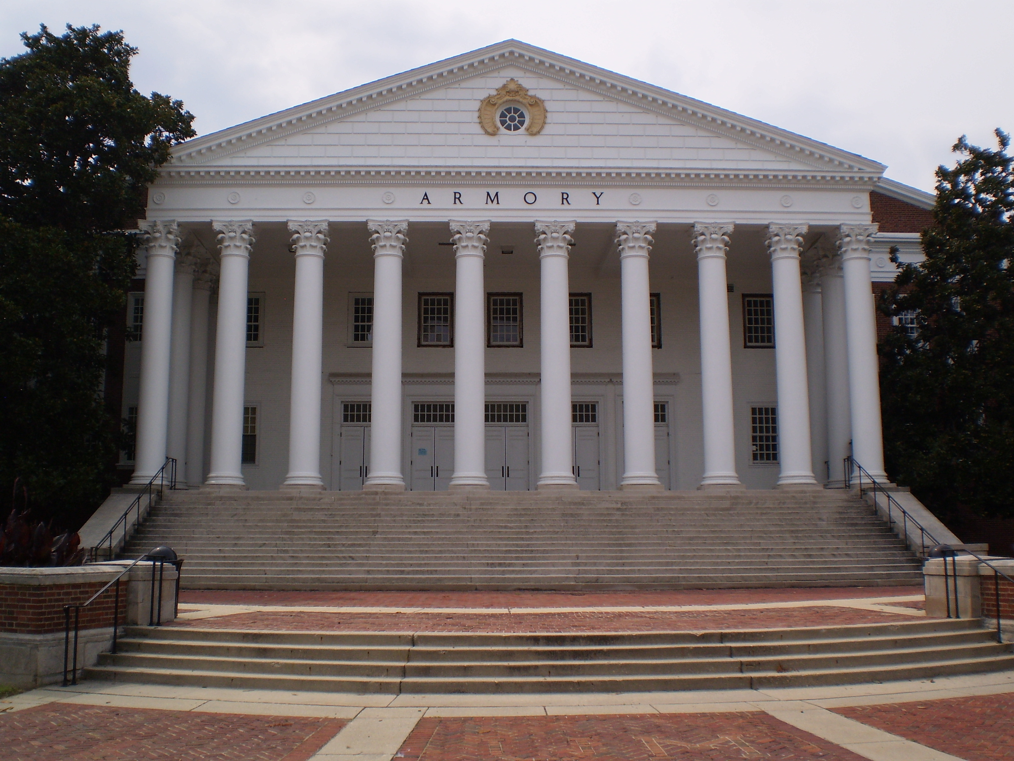 The Greek Revival facade and colonnade of the Armory on the campus of the University of Maryland, College Park.